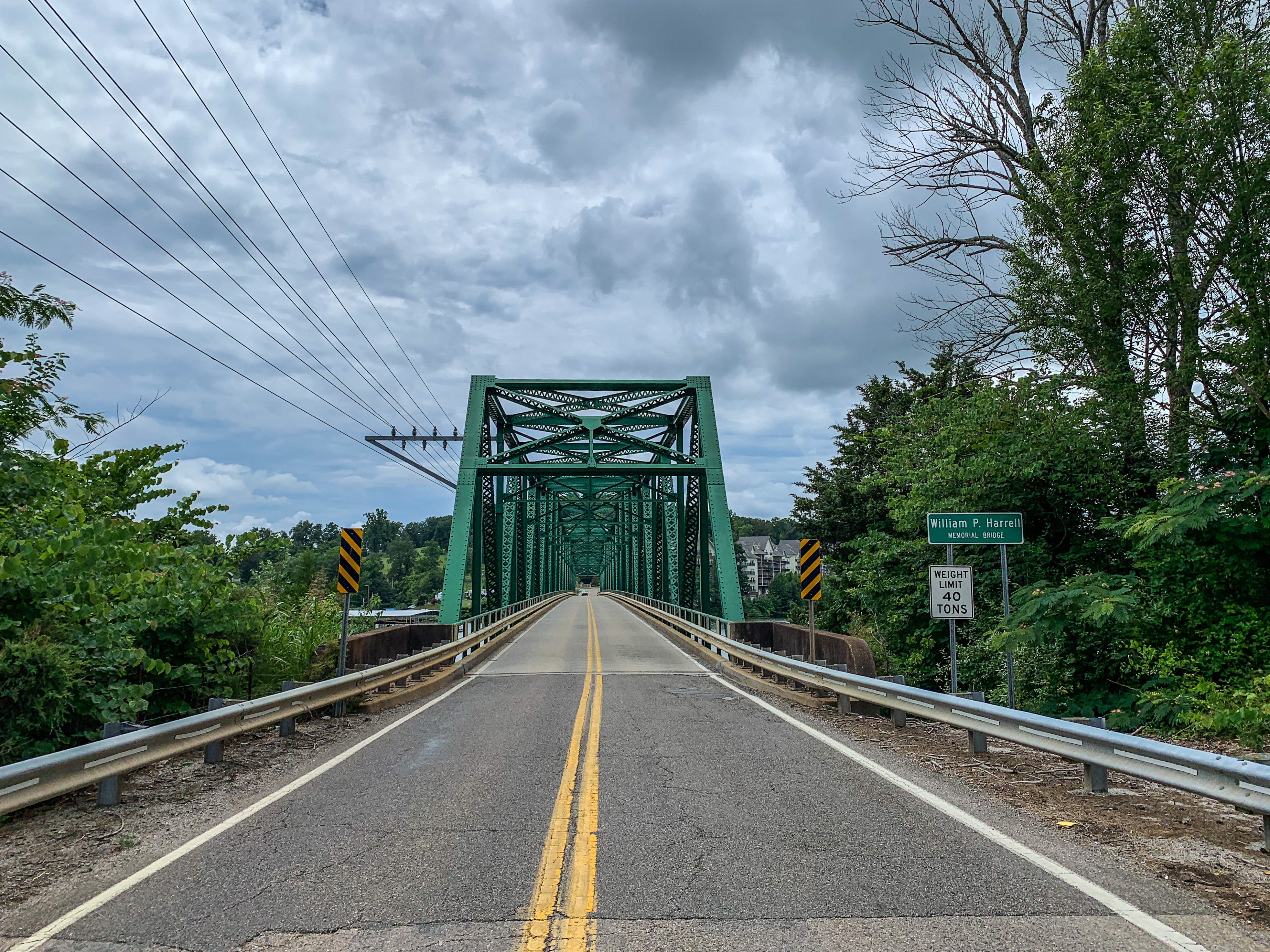 German Creek Bridge that carries Tennessee State Route 375 across Cherokee Lake in Bean Station.